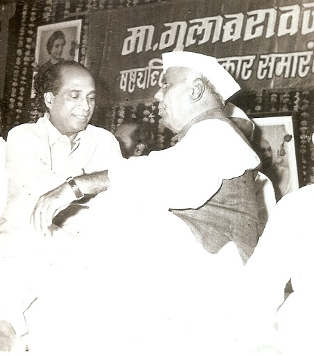 Original file of Gulabrao Patil and Yashwantrao Chavan